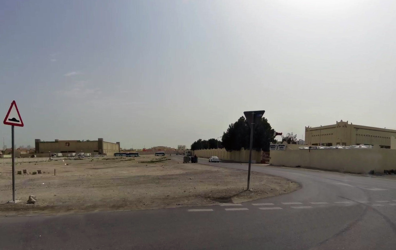 DeBakey High School and an under-construction LuLu Centre in the Al Messila district of Doha, Qatar.